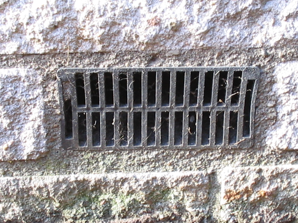 house vent